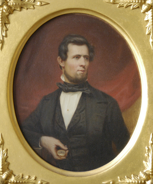 Self-portrait of Stephen W. Shaw, California '49er and San Francisco Portrait Painter. Original painting is about 8 inches x 10 inches possibly on board. Obverse bears handwritten note that Shaw painted his self-portrait in a mirror.